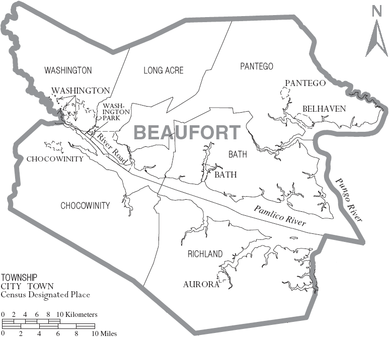 Map of Beaufort County, North Carolina, United States with township and municipal boundaries